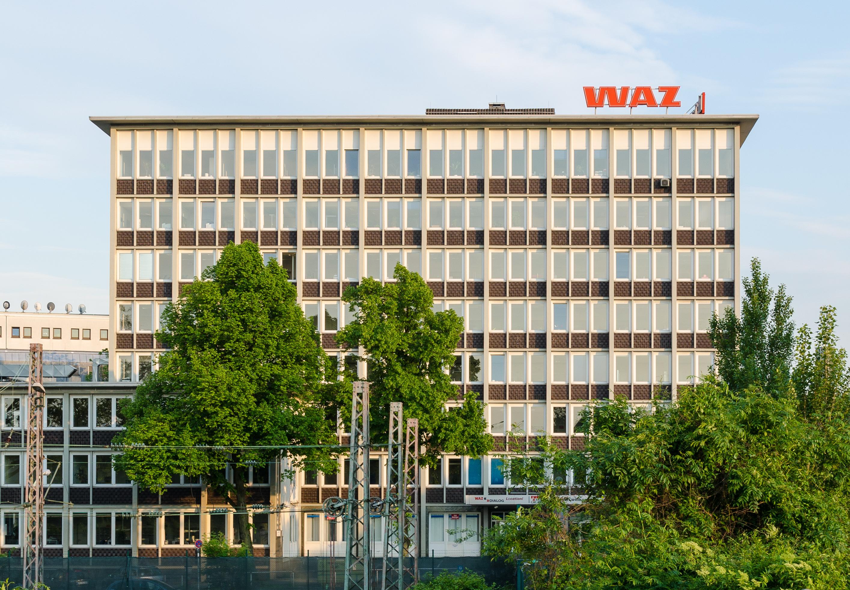 Building of the WAZ Media Group in Essen